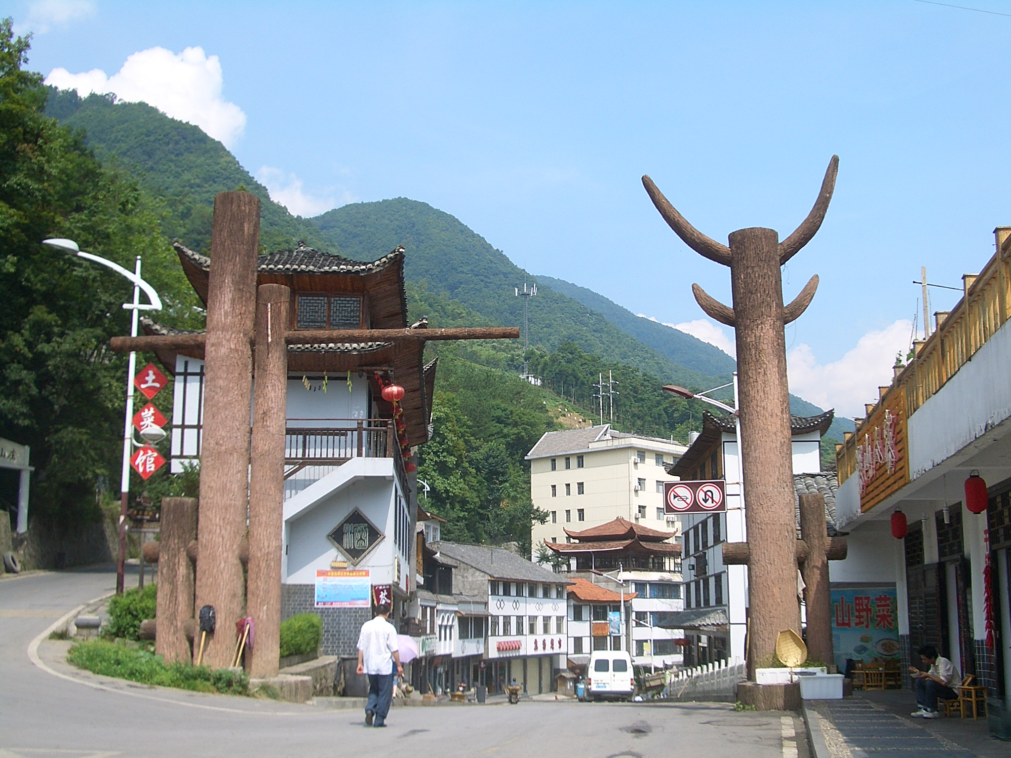 Around Muyu Town's main street, where most of the hotel and restaurant businesses are